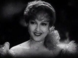 Cropped screenshot of Jeanette MacDonald from the trailer for the film The Merry Widow